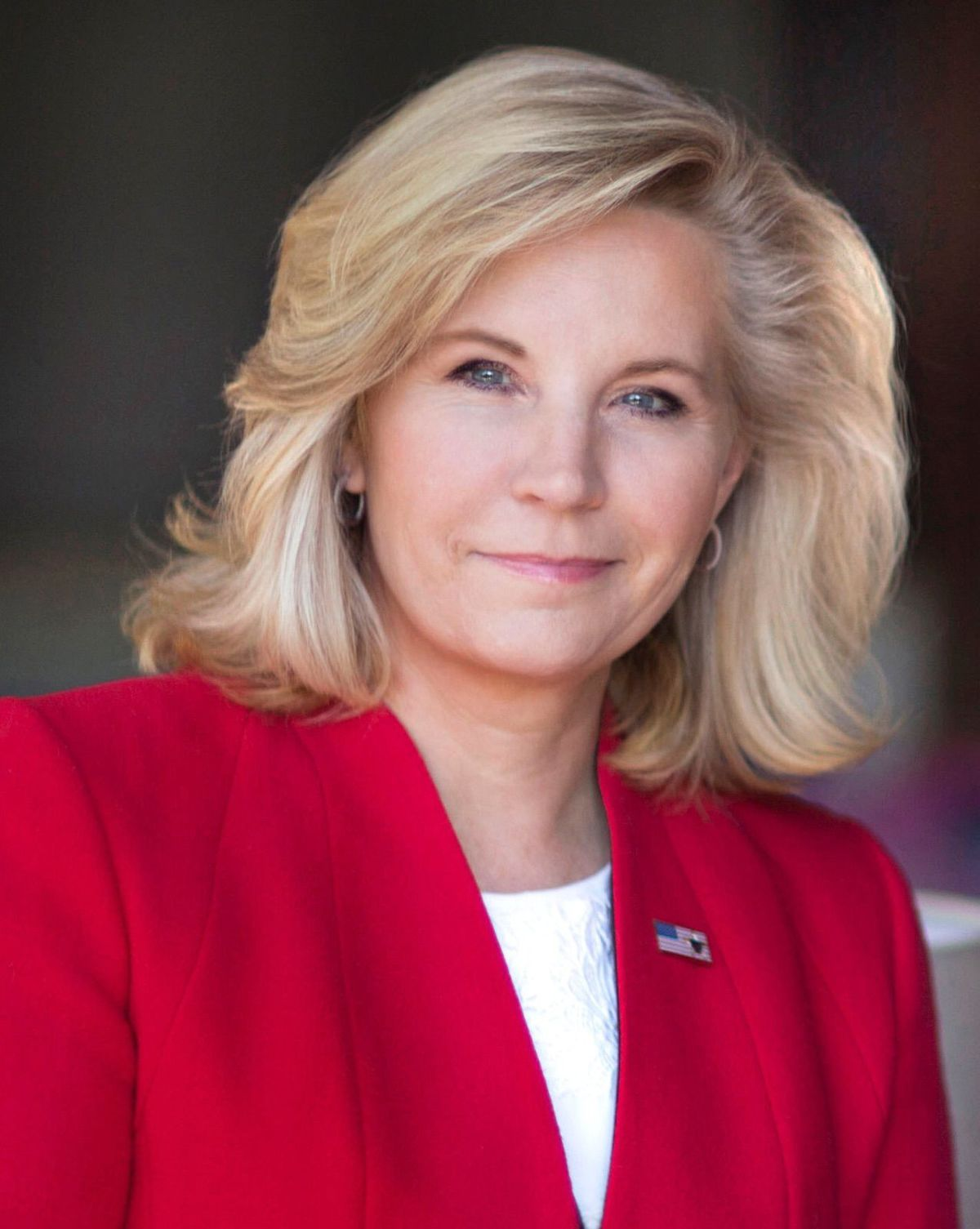 Liz Cheney